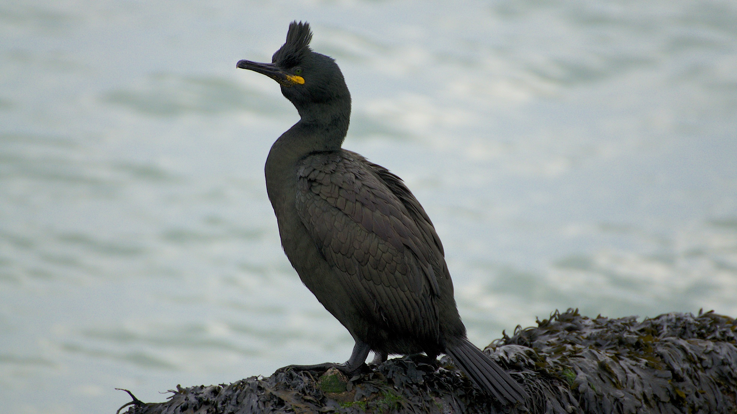 Next to the ferry terminal